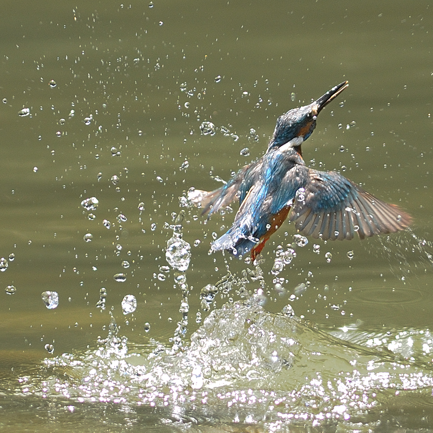 Common Kingfisher (also known as Eurasian Kingfisher) flying out and upfrom the water.